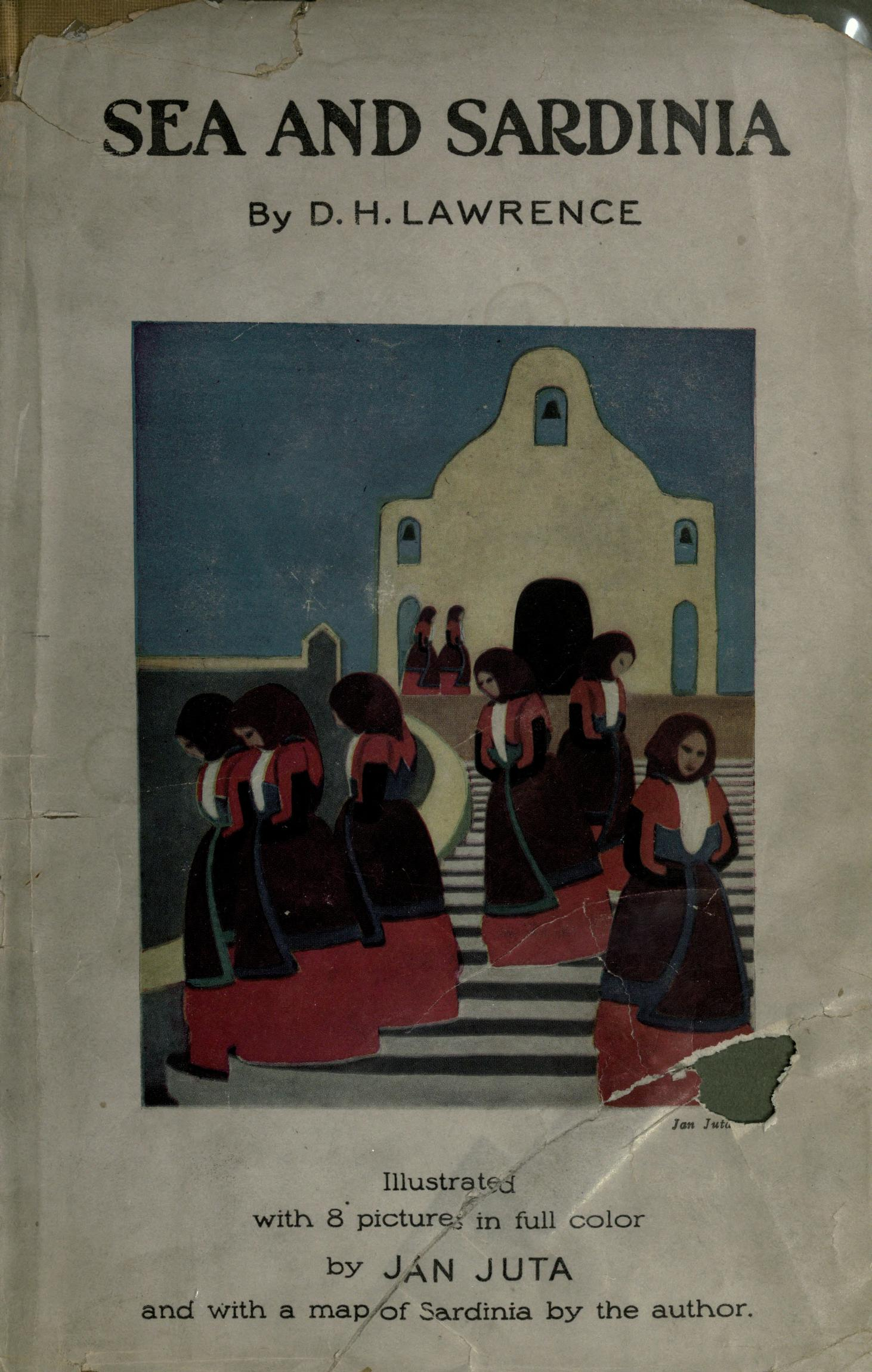 1st edition cover of Sea and Sardinia by D.H. Lawrence